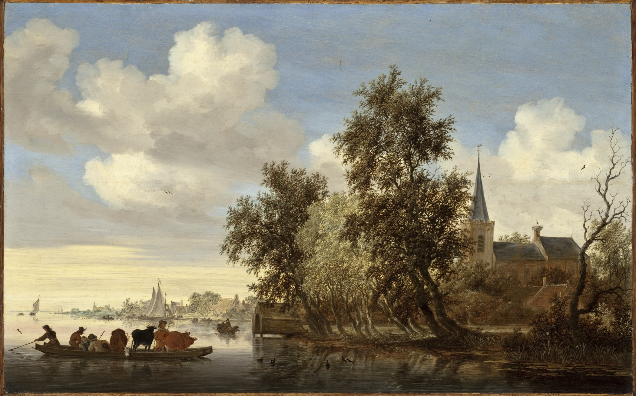 1650 Paintings Oil on wood Panel: 20 1/2 x 32 7/8 in. (52.07 x 83.5 cm); Framed: 29 3/4 x 42 1/4 x 3 in. (75.57 x 107.32 x 7.62 cm) Gift of Mr. and Mrs. Edward William Carter (M.2009.106.13) European Painting Currently on public view: Ahmanson Building, floor 3